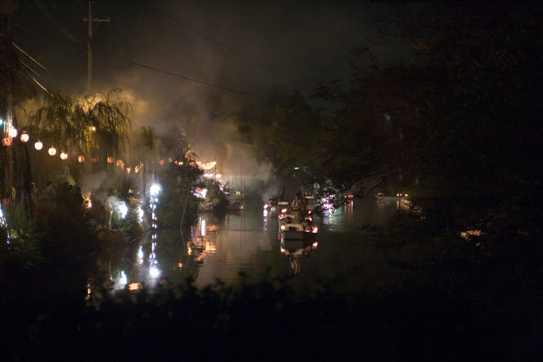 Annual Hakushusai festival in Yanagawa. I am the author of this photo (Ben Cook)